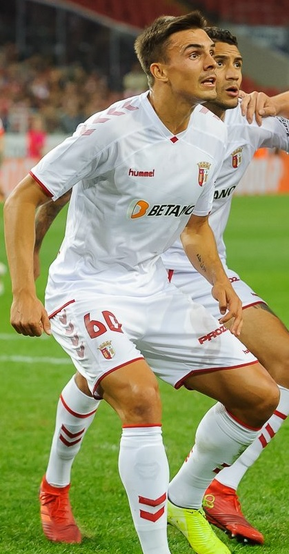 João Palhinha with SC Braga in an Europa League qualifying game against FC Spartak Moscow.